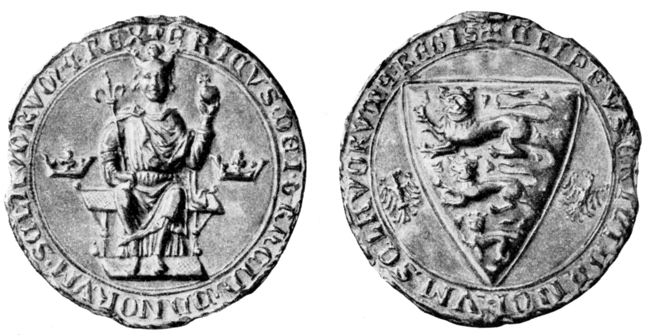 Seal of Danish king Erik Menved. This seal is known from documents dating 1287-1304.